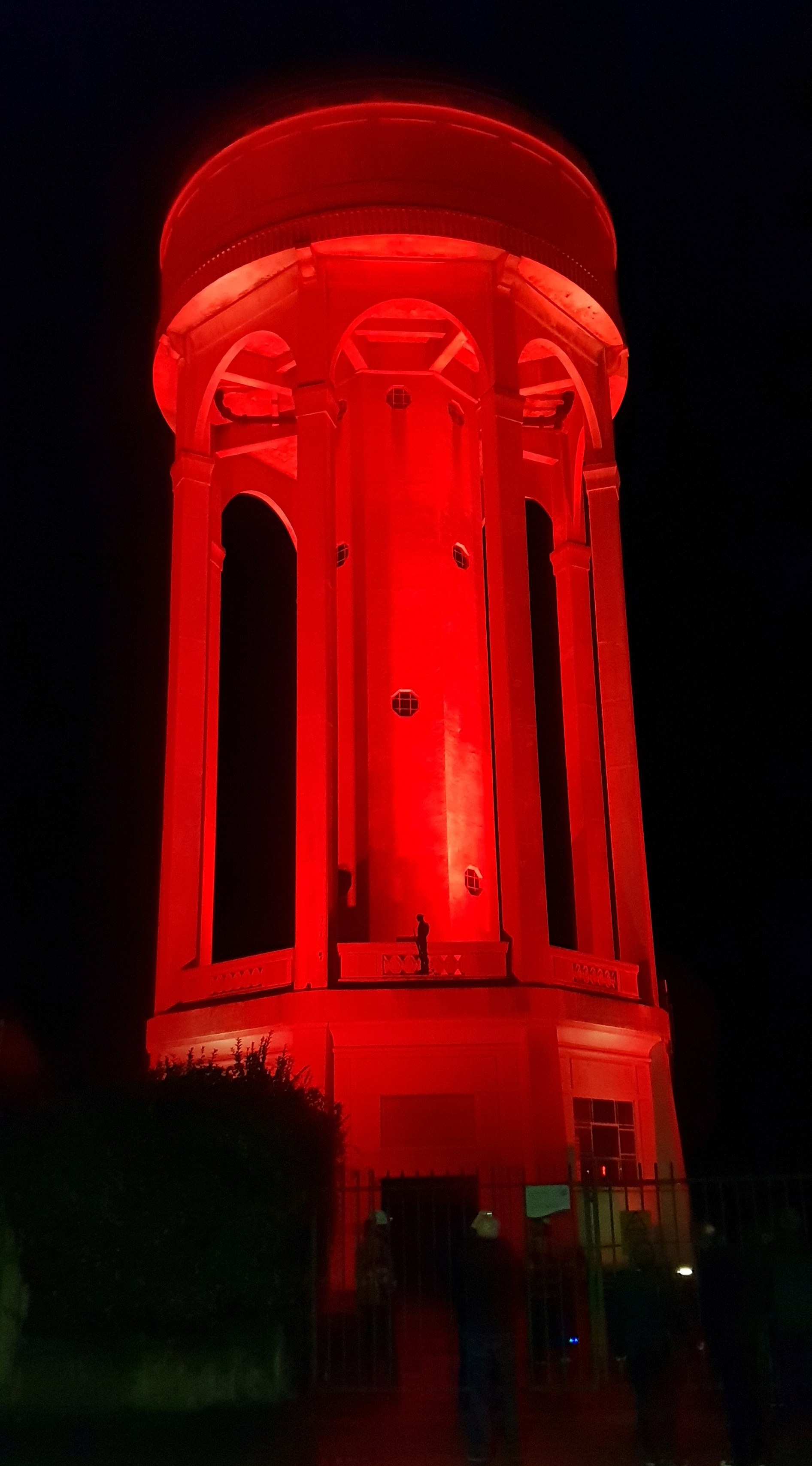 Tilehurst Water Tower lit in poppy red to commemorate the 100th anniversary of the Armistice that ended the first world war.